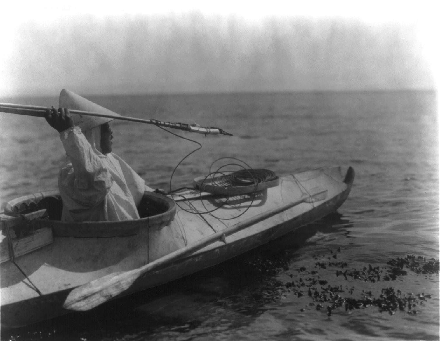 LOC description:Eskimo man seated in a kayak prepares to throw spear.